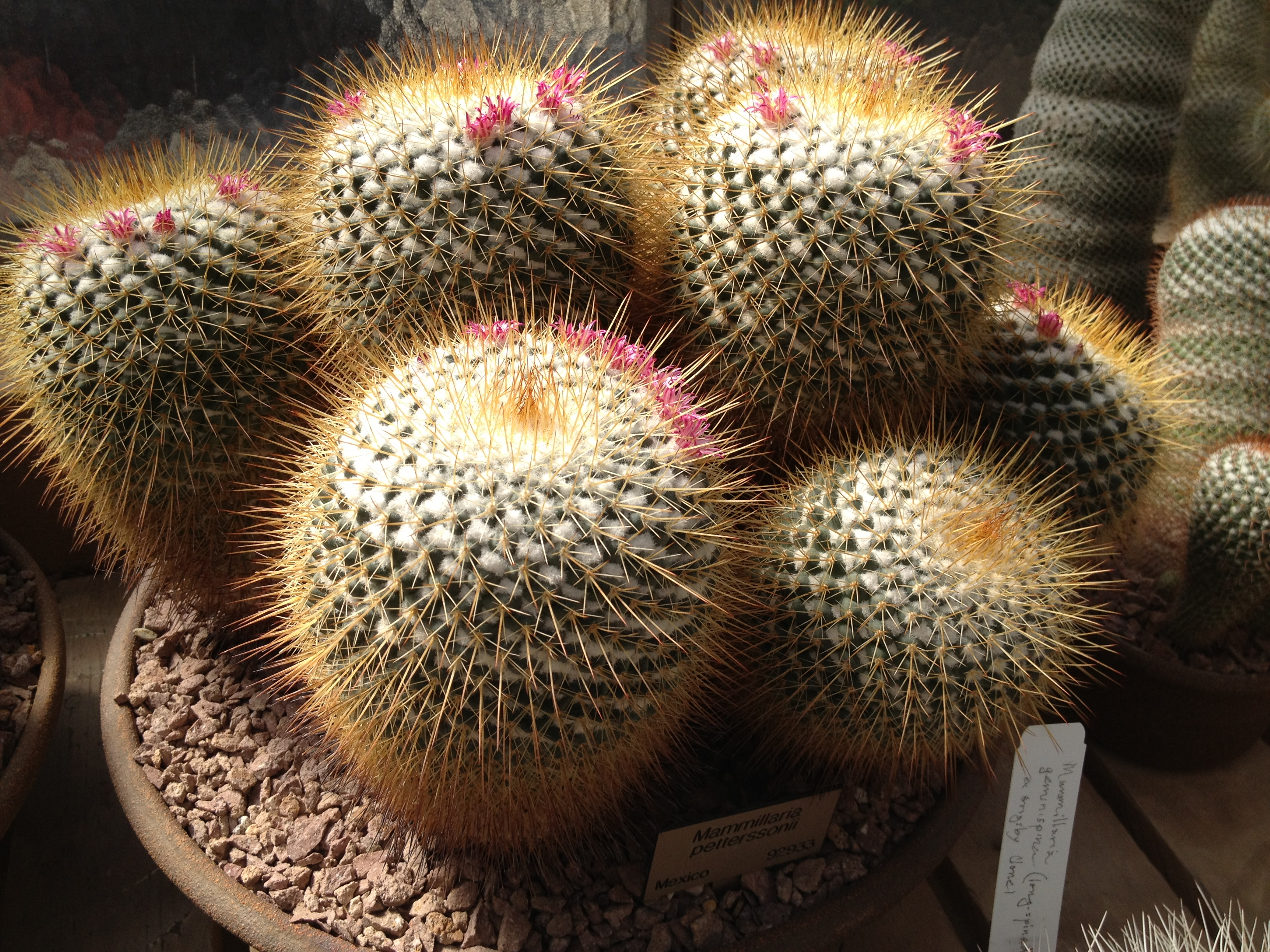 Potted Cactus, Huntington Library botanical gardens. April 7, 2012.